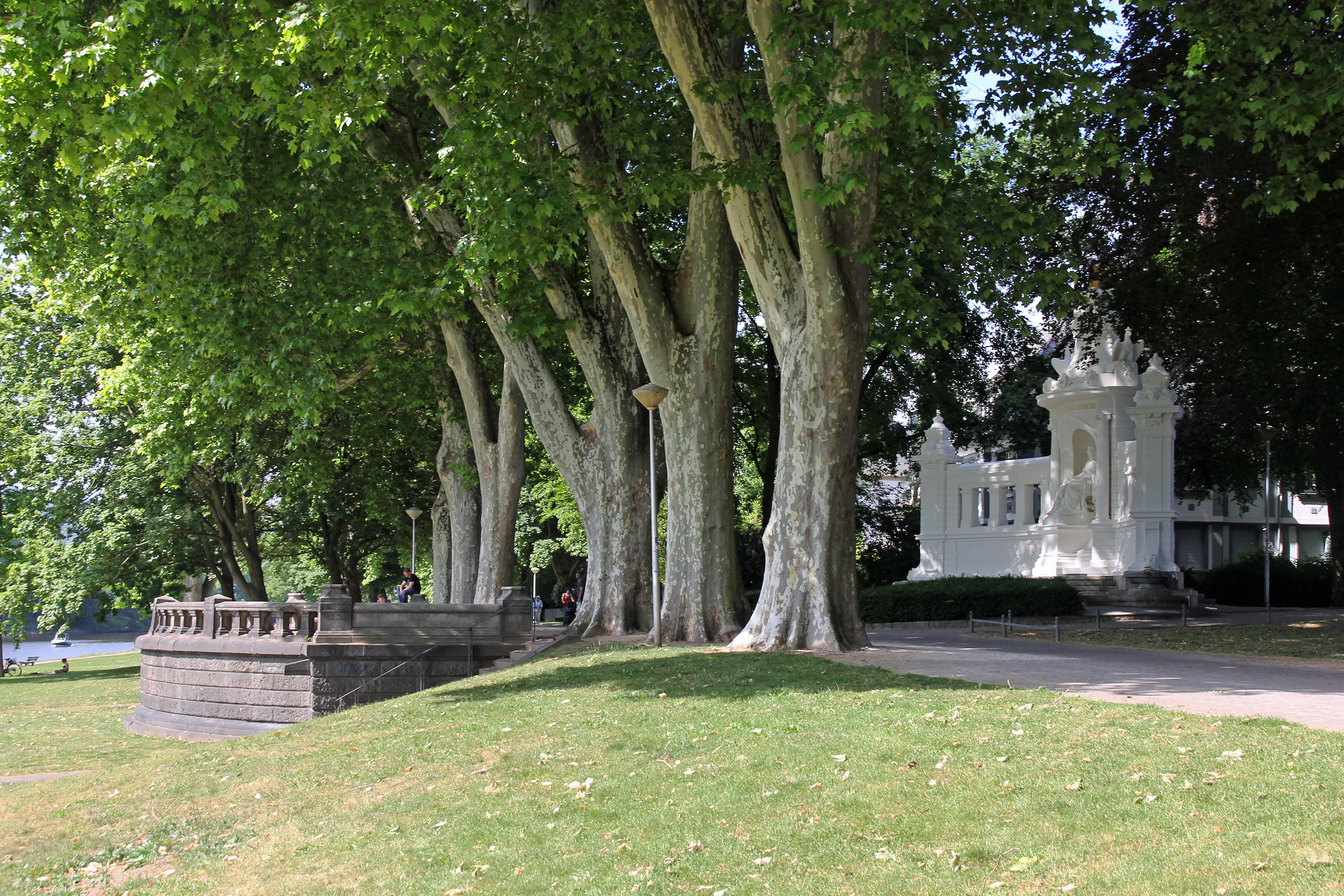 Augusta-Monument in the rhine park of Koblenz